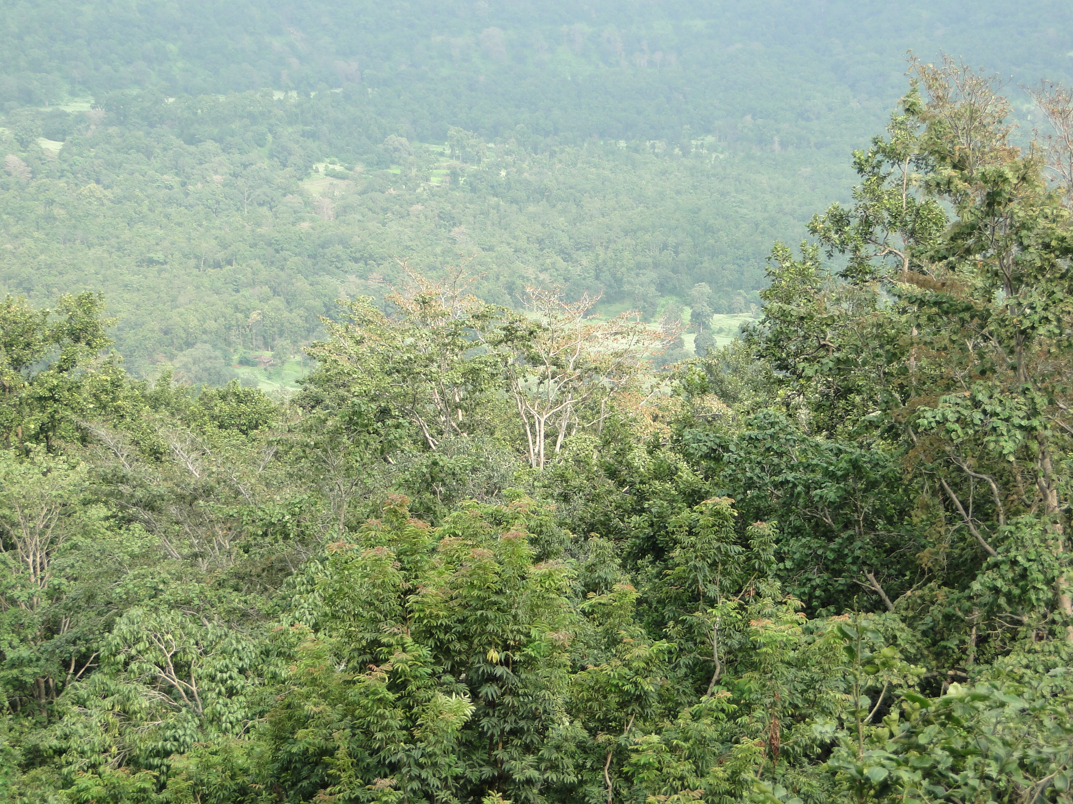 Healing Flora of Amarkantak in rainy season. In Amarkantak Biodiversity zone thousands of Traditional Herbal Formulations are used by native Traditional Healers. Although millions have been invested in the name of Traditional Knowledge Documentation but still majority of knowledge is in undocumented form. I am visiting this zone since year 1990.